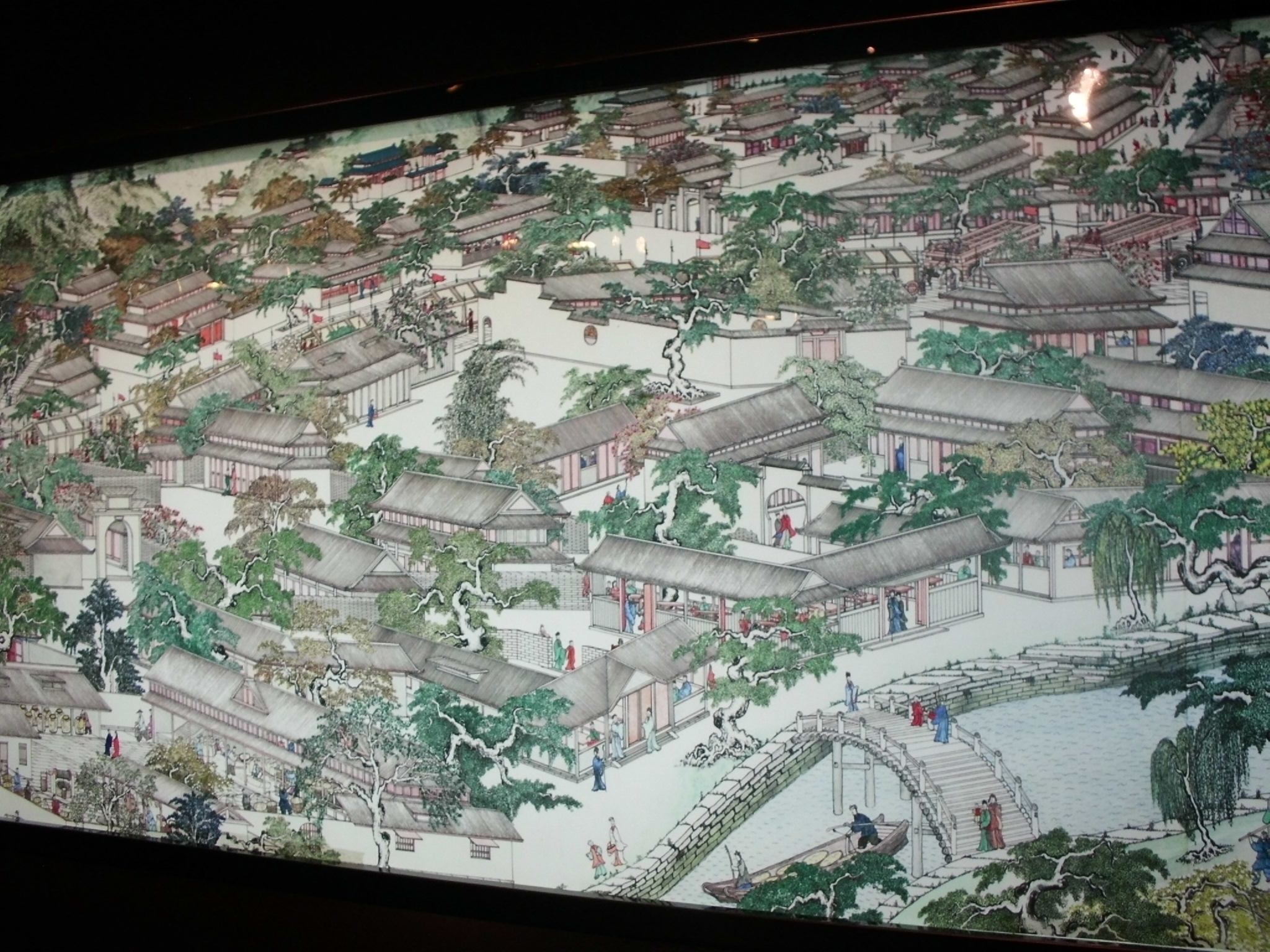 Hangzhou Urban Planning Exhibition Hall